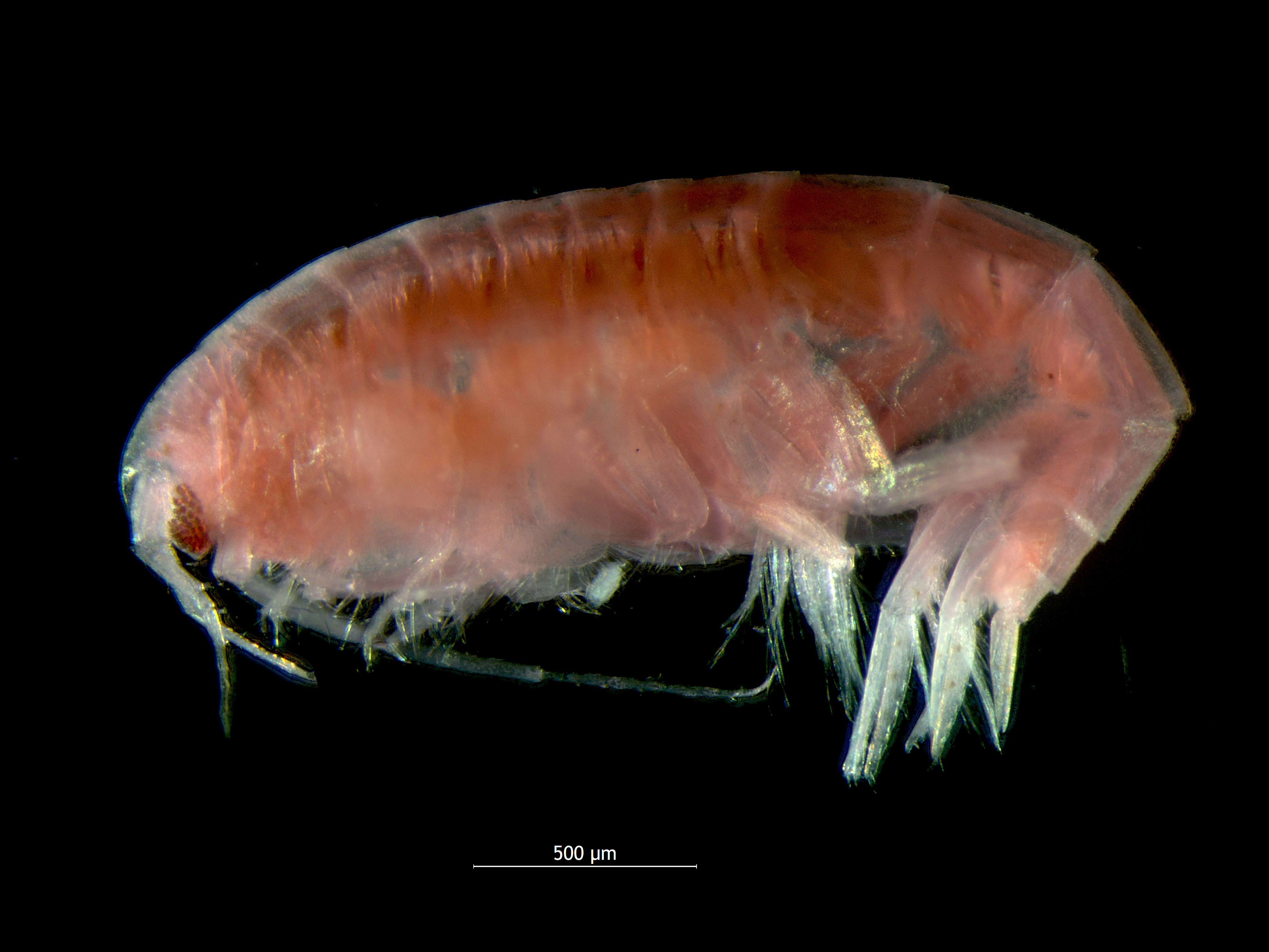 Male amphipod. Sampled on mid-sized sediments on the Northern part of the Buitenratel, on the Belgian Continental Shelf in 2011.